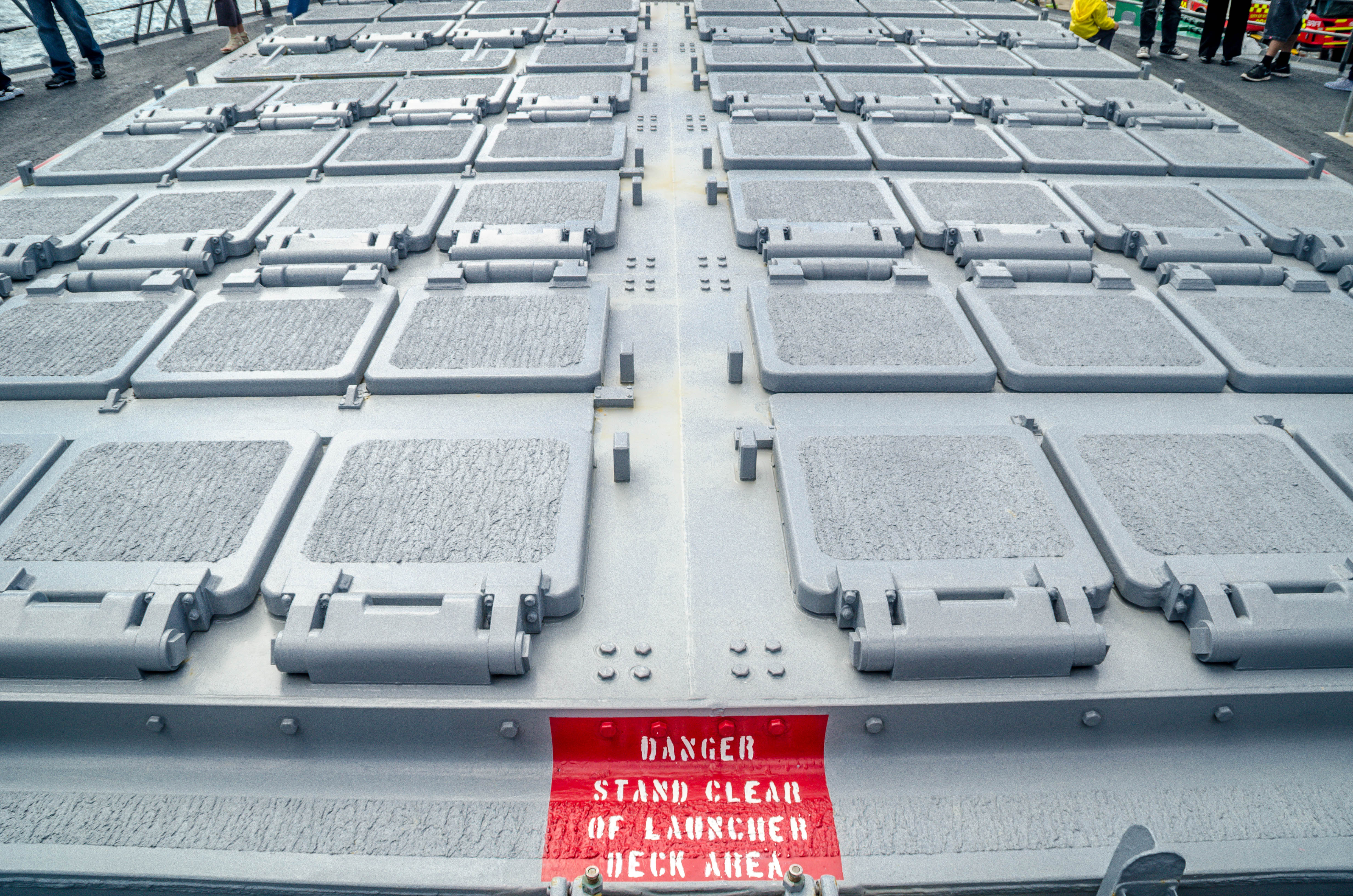 USS Chosin (CG-65) Mark 41 Vertical Launching System